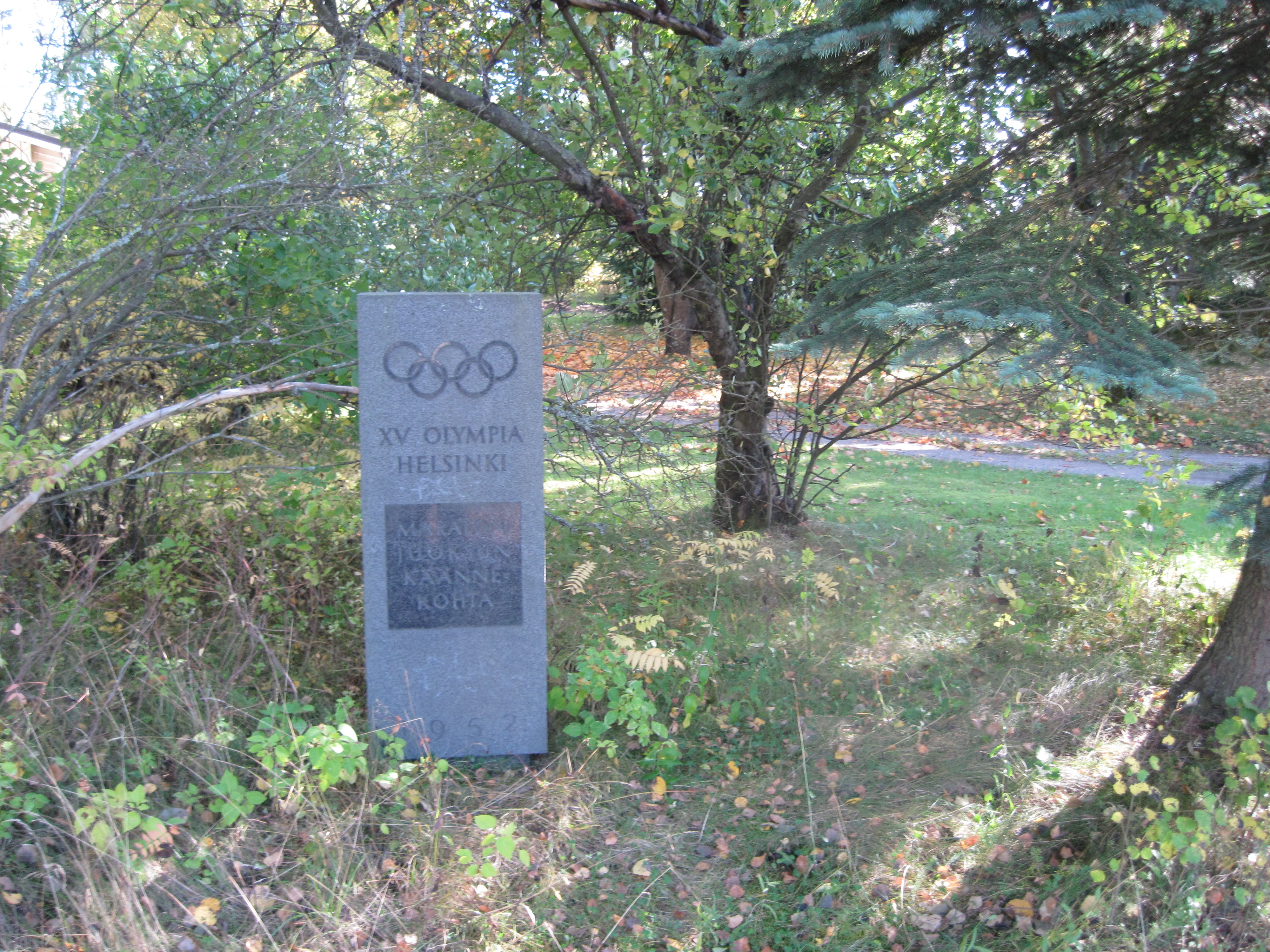 Memorial of the turning point of marathon of Olympic games of Helsinki, 1952, by Tuusulantie below Matakivenmaki hill at Tuusula, Finland